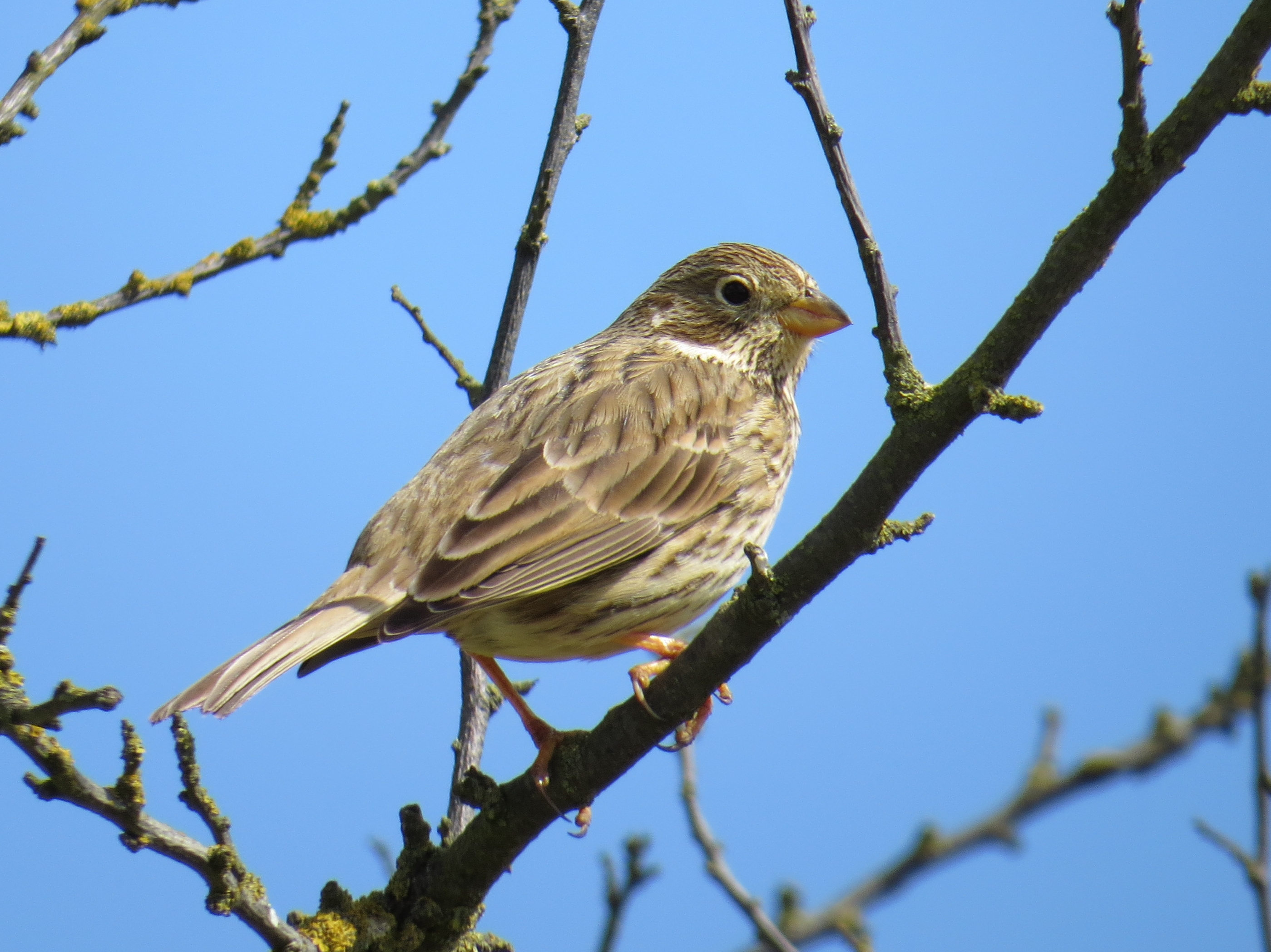 Corn Bunting